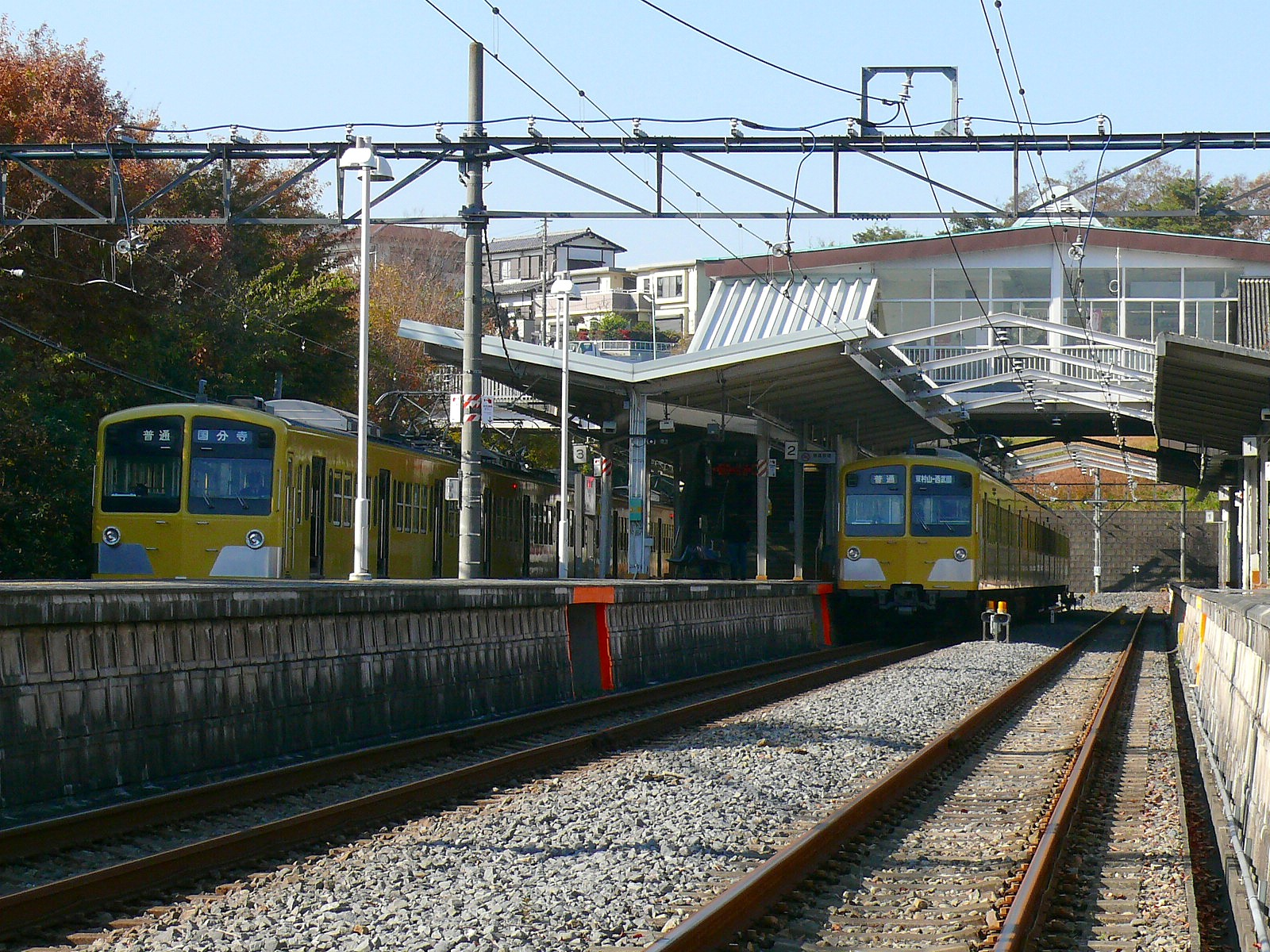 Seibu-Railway Seibuen-station-premises(Japan, Higashimurayama-City). It takes a picture of the station premises of Seibu-Seibuen Line Seibuen Station from the public road. 西武西武園線の西武園駅の駅構内を公道から撮影。